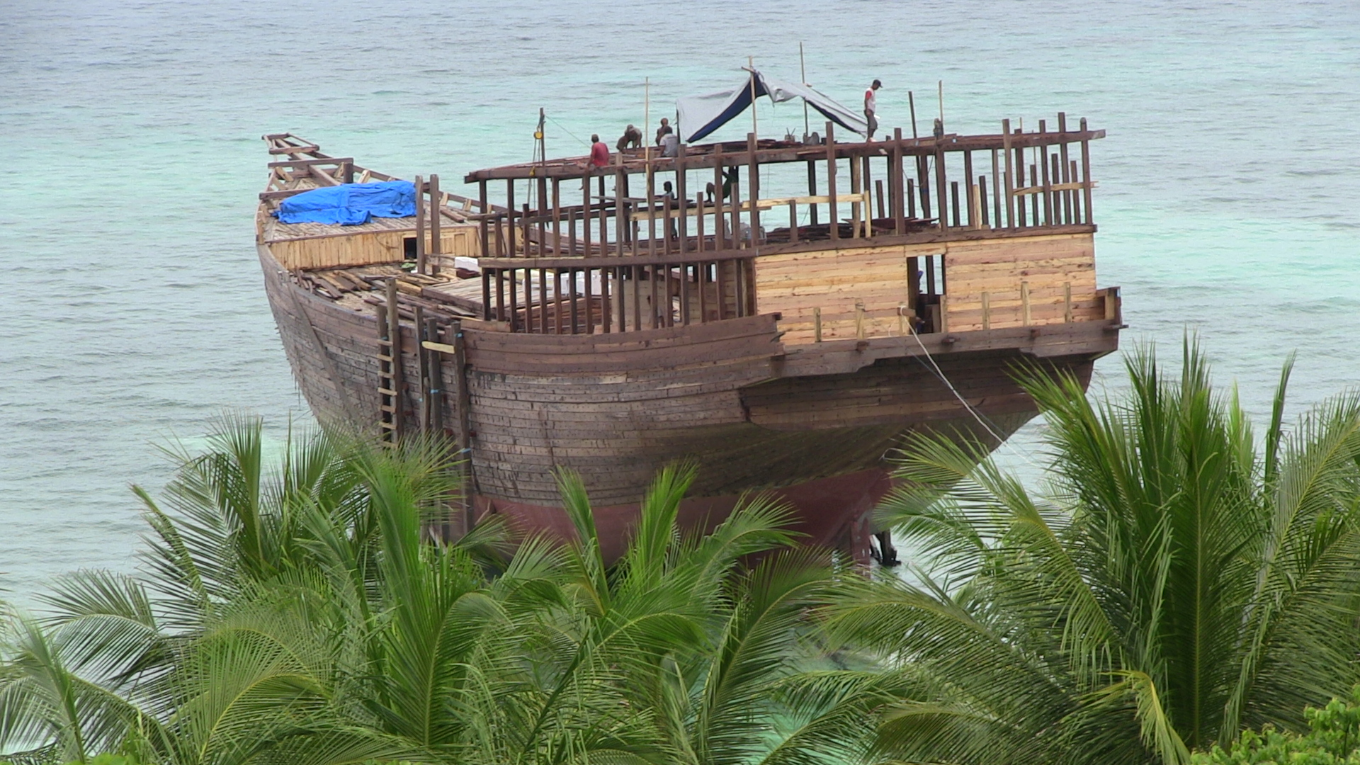 Building pinisi ship in Bulukumba Regency, South Sulawesi, Indonesia